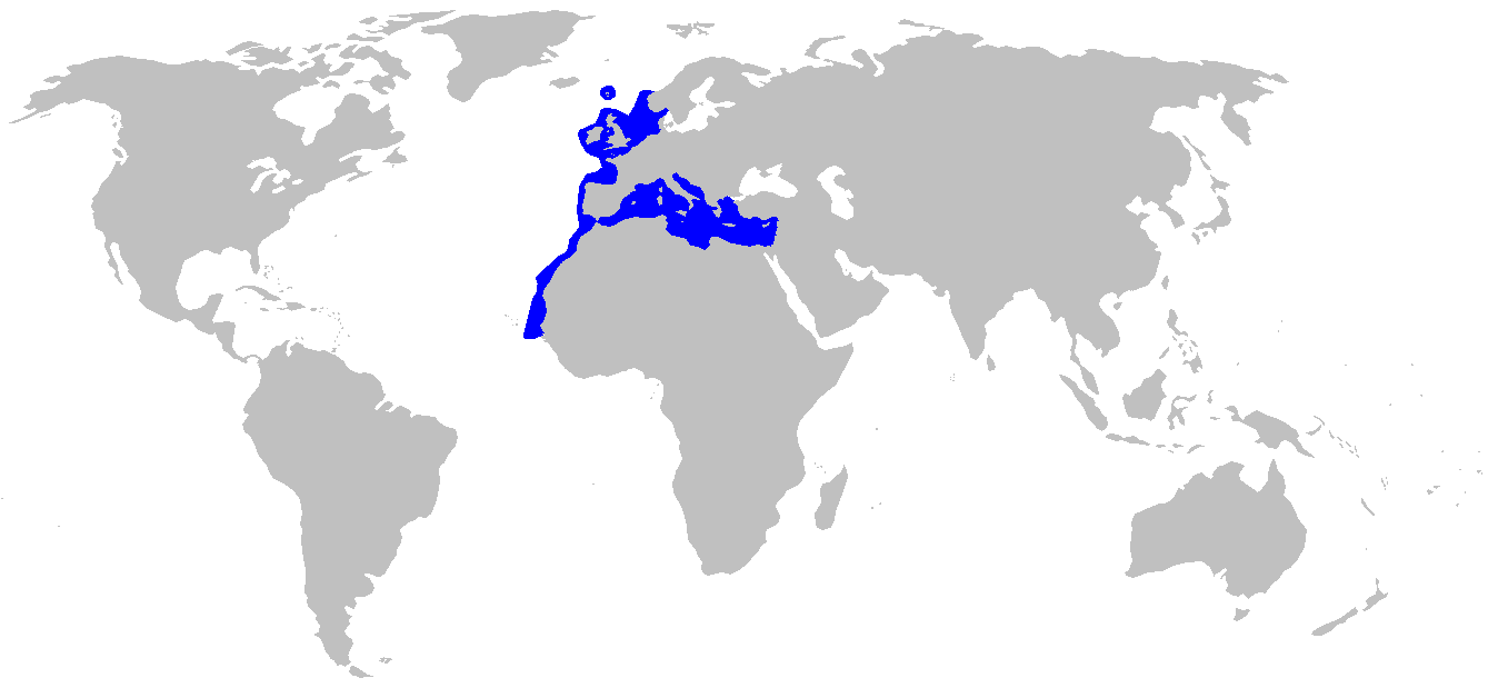 Distribution map for Galeus melastomus